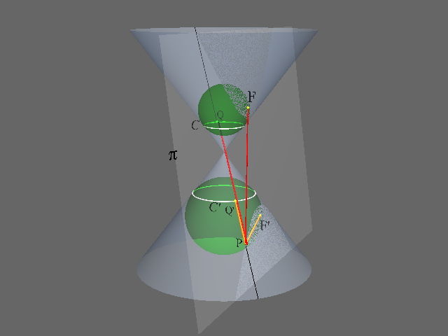 Conic Section. Abs(PF-PF')=const.